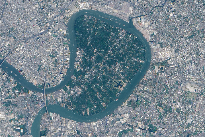 In the heart of Thailand’s most populous city, an oasis stands out from the urban landscape like a great “green lung.” That’s the nickname given to Bang Kachao—a lush protected area that has escaped the dense development seen elsewhere in Bangkok. The city is built on the alluvial plain of the Chao Phraya River. Toward the southern end, near the Gulf of Thailand, is an old meander that never quite formed an oxbow lake. That meander traces the boundary of Bang Kachao, which TIME magazine once called the “best urban oasis” in Asia. On February 2, 2014, the Operational Land Imager (OLI) on Landsat 8 captured this natural-color view of Bang Kachao (also called Bang Krachao or Bang Kra Jao). The top image is a close up view of the region outlined with a rectangle in the bottom image. Bang Kachao is actually an island—albeit an artificial one. The Klong Lad Pho canal, built at the neck of the oxbow, allows water from the Chao Phraya to more quickly reach the sea. The canal contains floodgates that control water levels to prevent flooding. Immediately west of the canal is the Bhumibol Bridge, which twice crosses the Chao Phraya River. Look east of the mid-bridge interchange, however, and a stark transition occurs, as the urban jungle gives way to about 2,000 hectares of rural jungle, villages, and farmland. According to a travel story in The New York Times, Bang Kachao is gaining popularity among tourists lured by bike tours, a floating farmers’ market, and the relaxed atmosphere.[1]